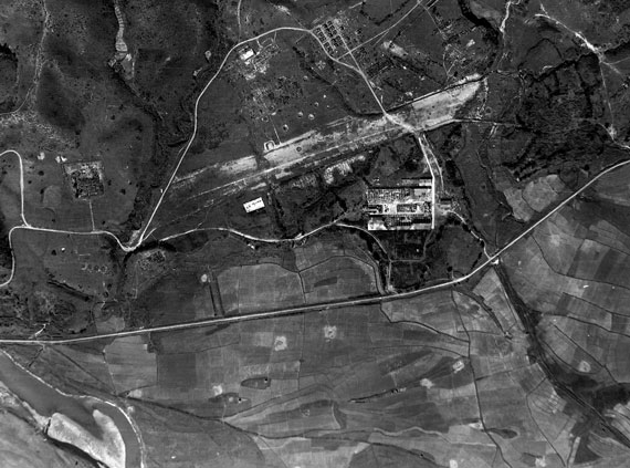 Central Aircraft Manufacturing Company Loiwing factory in 1944